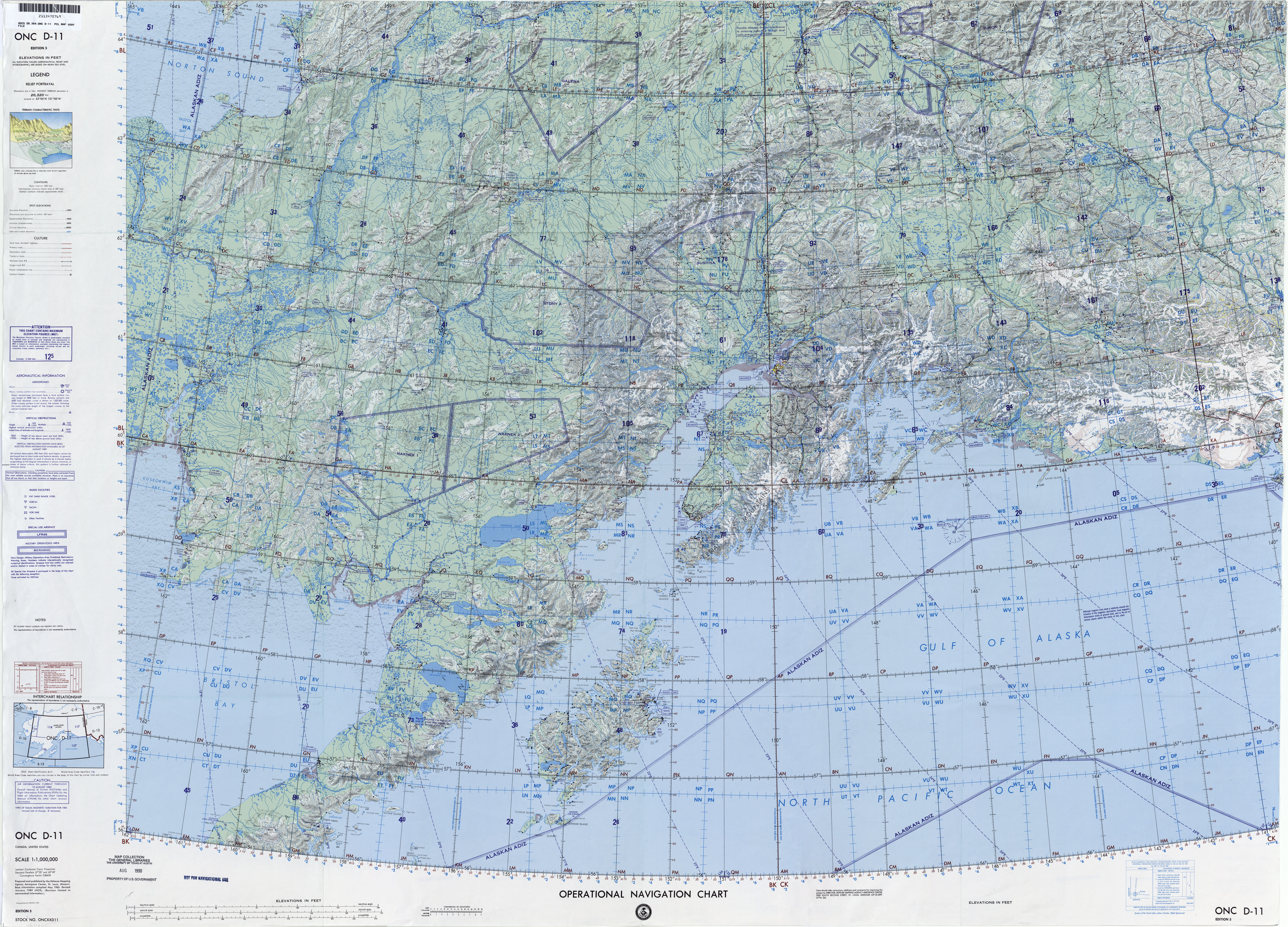 1:1,000,000 scale Operational Navigation Chart, Sheet D-11, 5th edition. Covers Alaska, Canada. Lambert Conformal Conic Projection. Standard Parallels 57 20N and 62 40N.